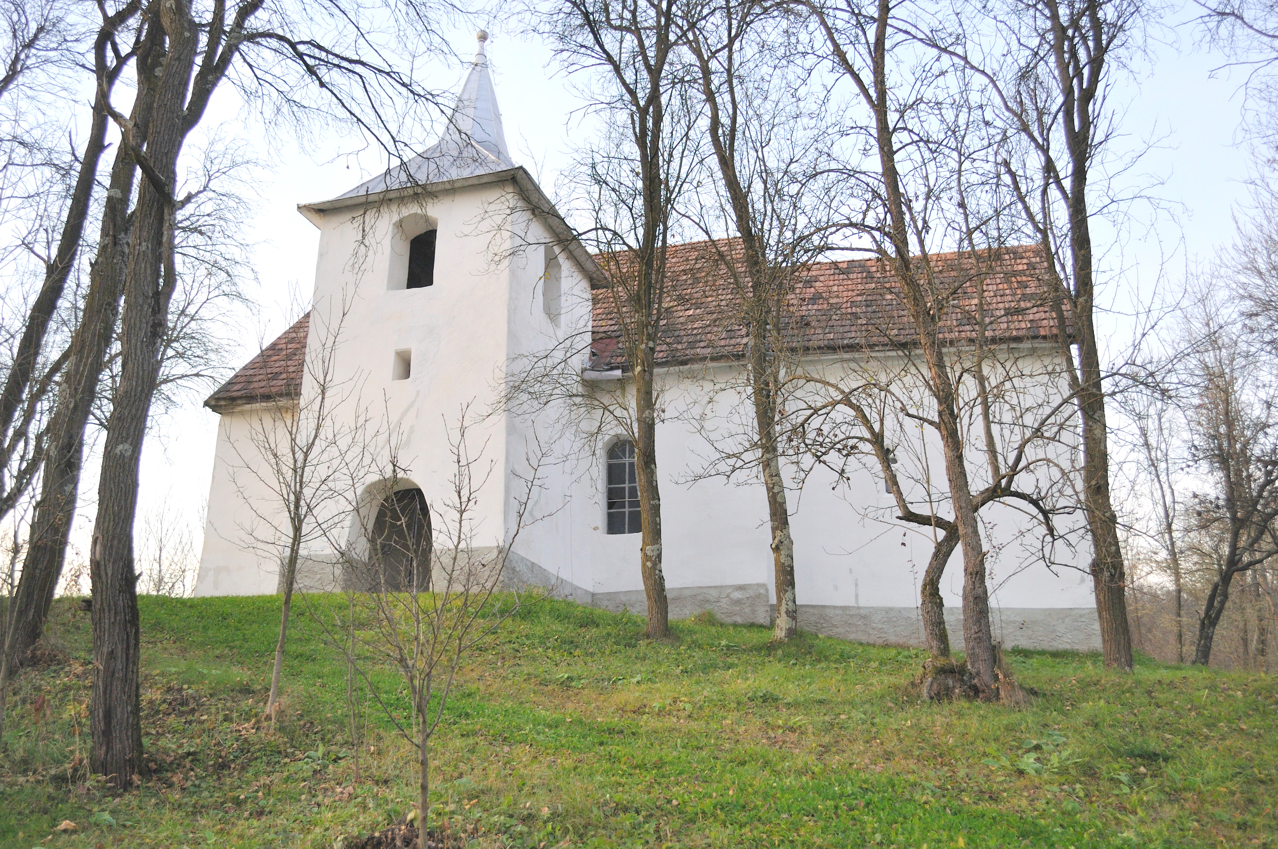 Reformed church in Tiocu de Sus, Cluj County, Romania